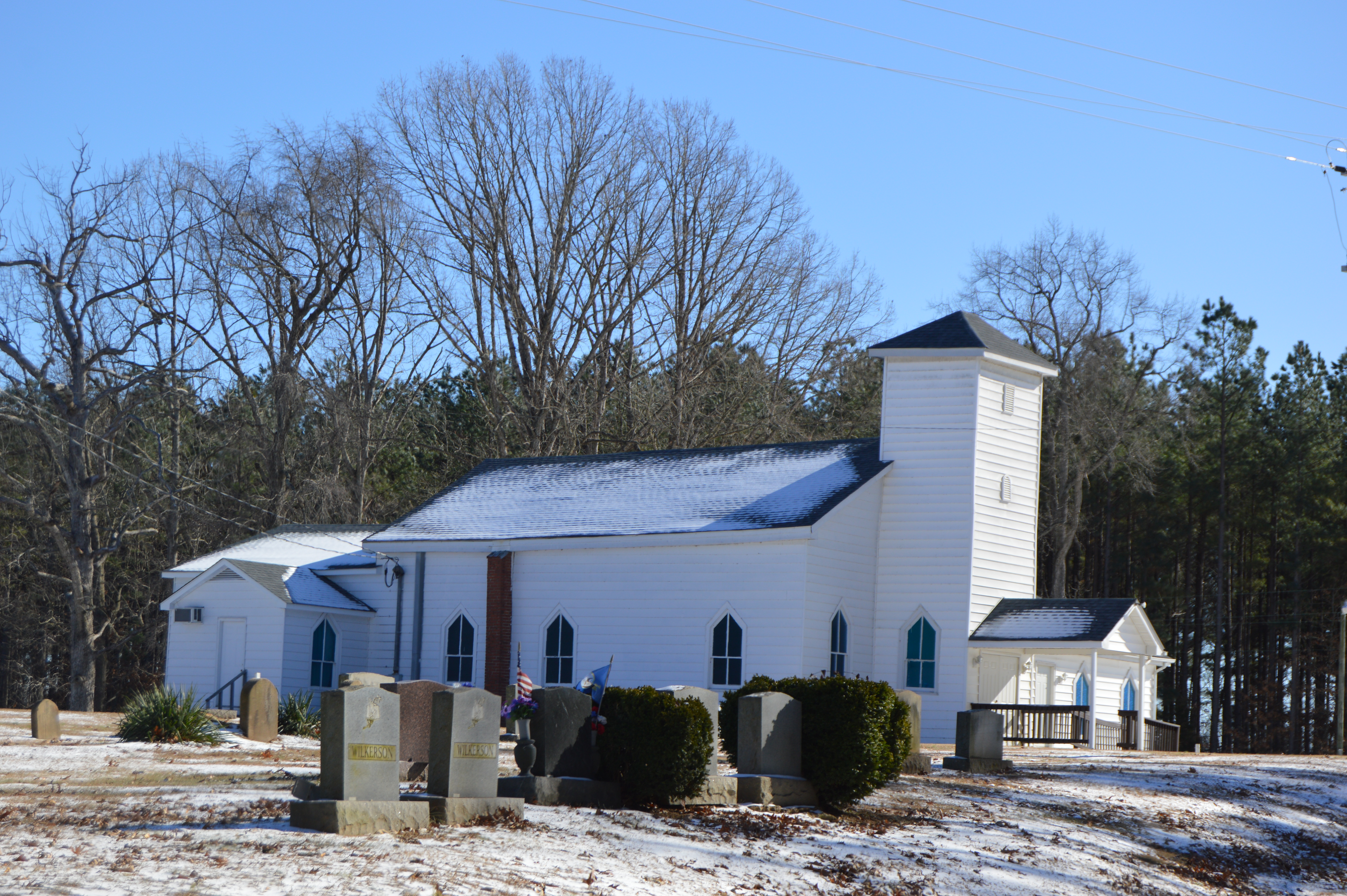 Front and northern side of Little Union Baptist Church, located on Clementown Road just north of Genito Road, at Morven, in Amelia County, Virginia, United States.